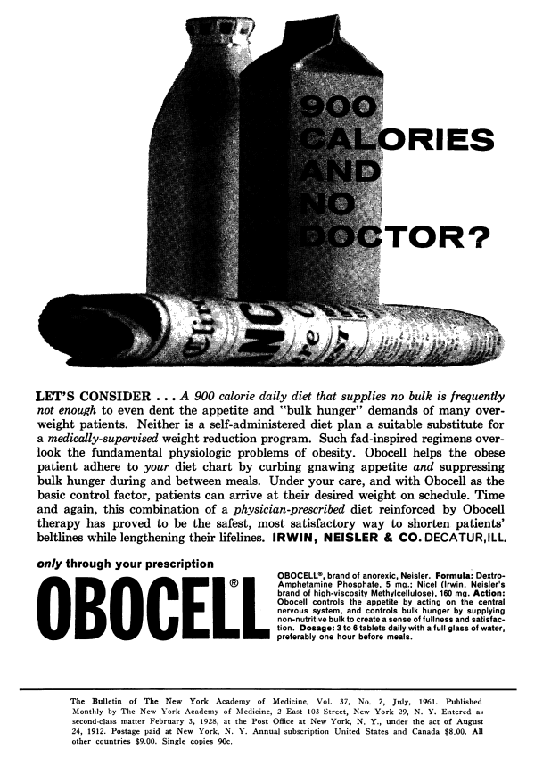 Obocell advertisment from 1961